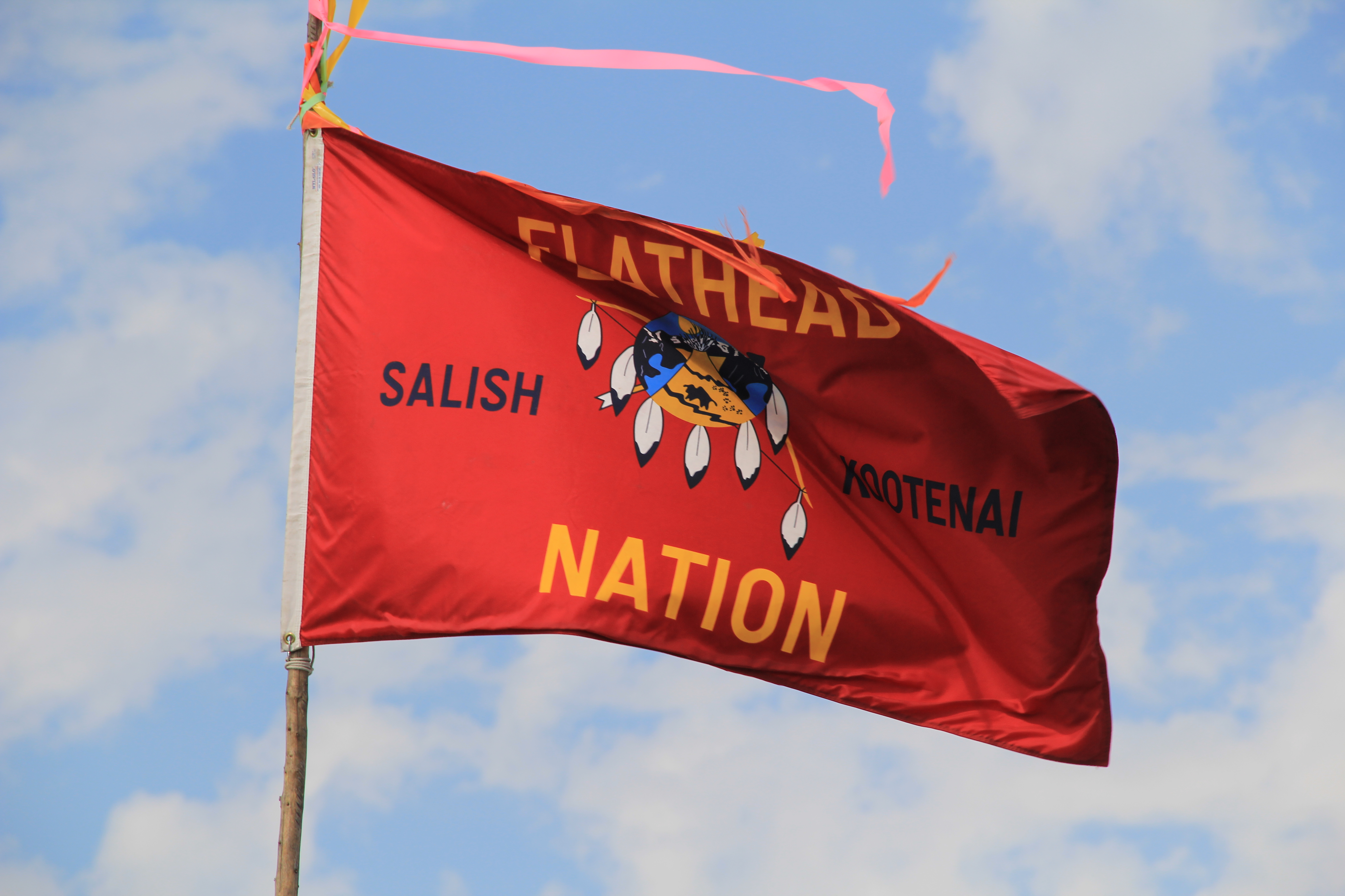 Flathead Nation Flag. Arlee Esyapqeni - Arlee Celebration Pow Wow 2015, in Arlee, Montana. July 6, 2015.